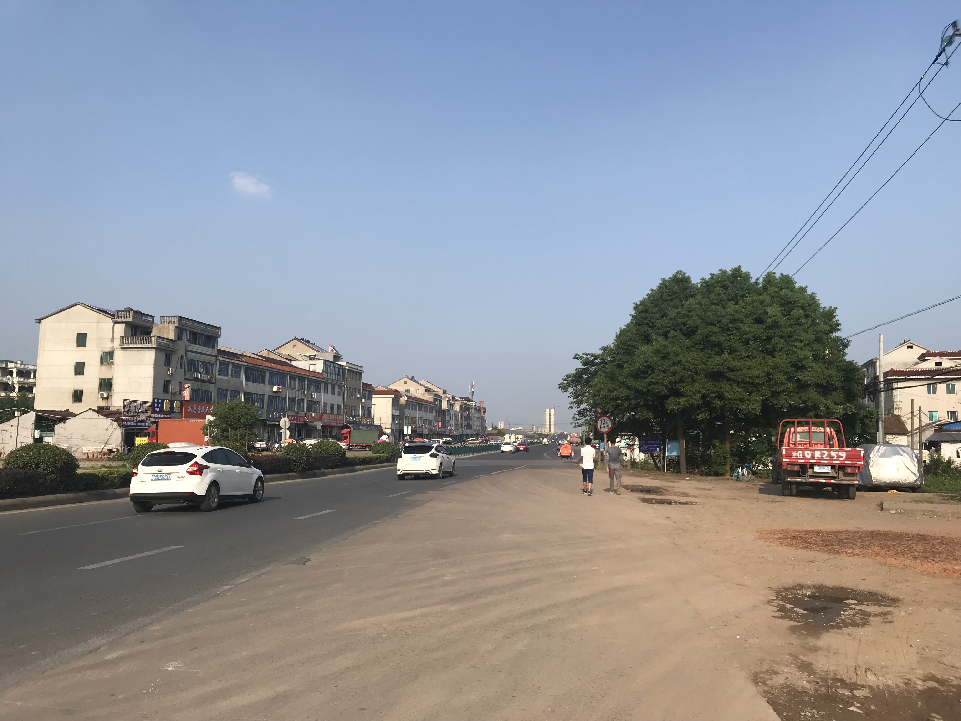 201805 Yicun, Bailongqiao